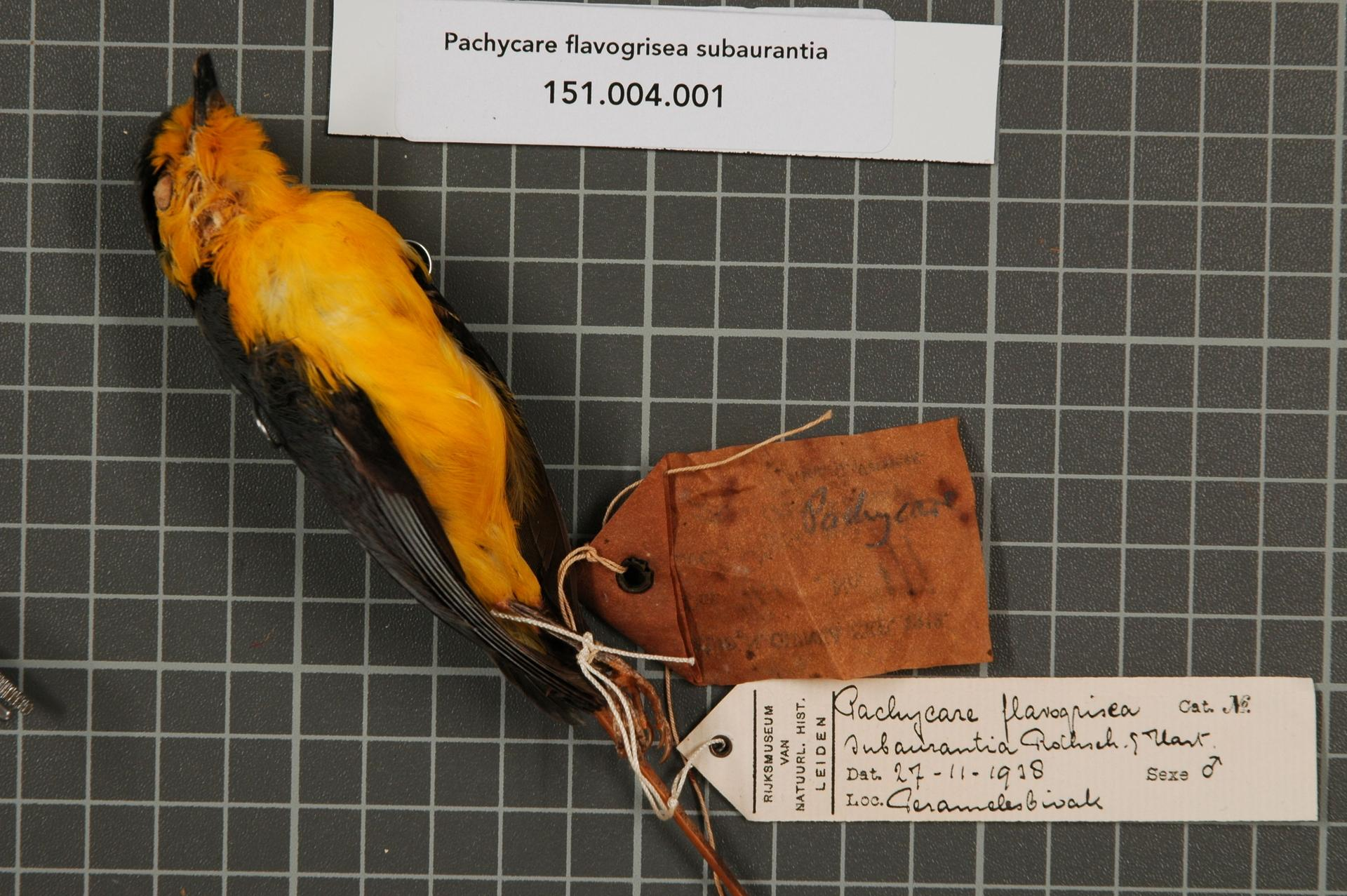 Pachycare flavogrisea subaurantia Rothschild & Hartert, 1911